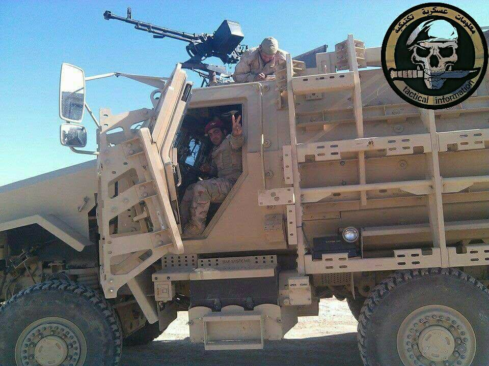 Iraqi Armor